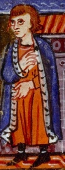 Raymond III of Tripoli in Jerusalem